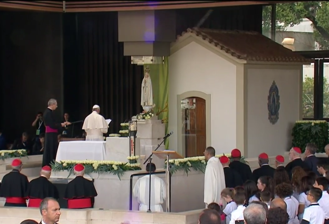 Pope Francis in the Chapel of Apparitions (Sanctuary of Fatima, Portugal), on 12 May 2017.